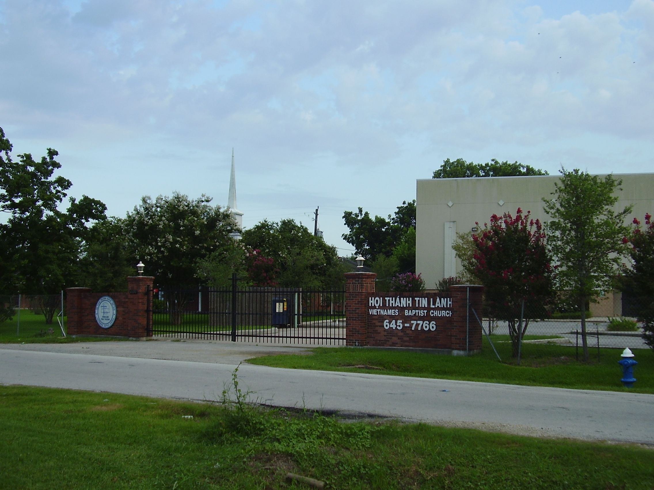 Vietnamese Baptist Church